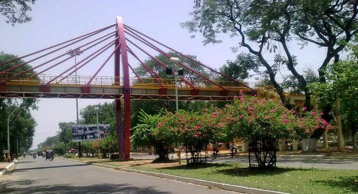 Adding another beautiful landmark to the steel city, Mr.S.N.Singh, MD, Rourkela Steel Plant(RSP) inaugurated ‘Suraksha Path’ a splendid steel-made foot over bridge the first of its kind in the state in front of the Indira Gandhi Park on 17th May.